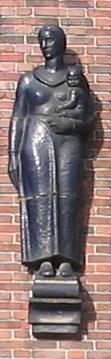 Sculpture in the listed Bärensiedlung (german for „Bear residential development“) at the Oberlandstraße (street) in Berlin-Tempelhof, built in 1929/31.